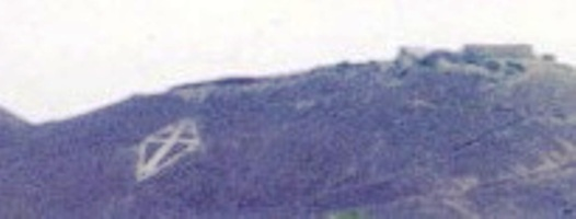 Mountain of Ali Sabieh 1970